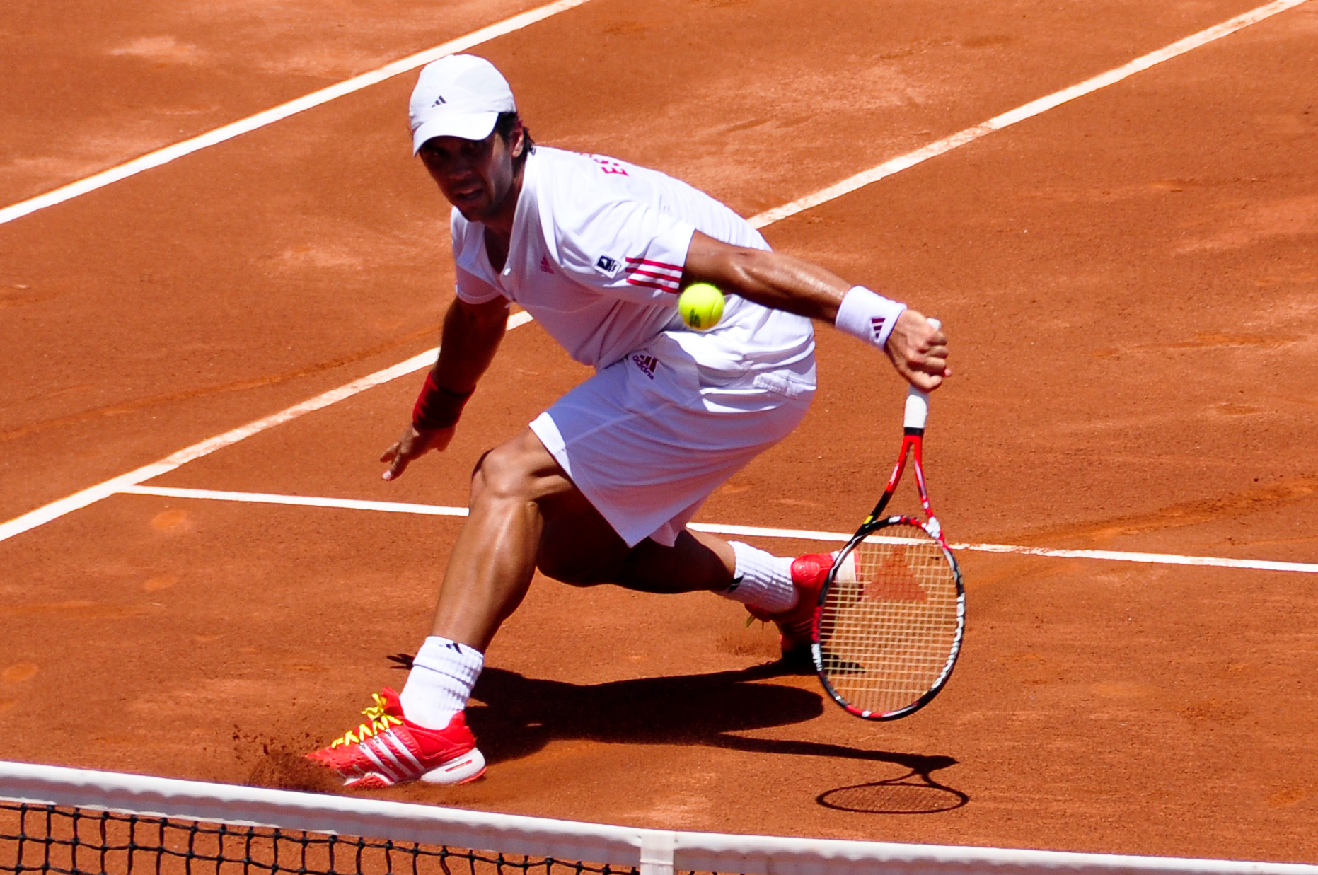 Fernando Verdasco against Andreas Beck in the 2009 Davis Cup semifinals (Spain vs. Germany)